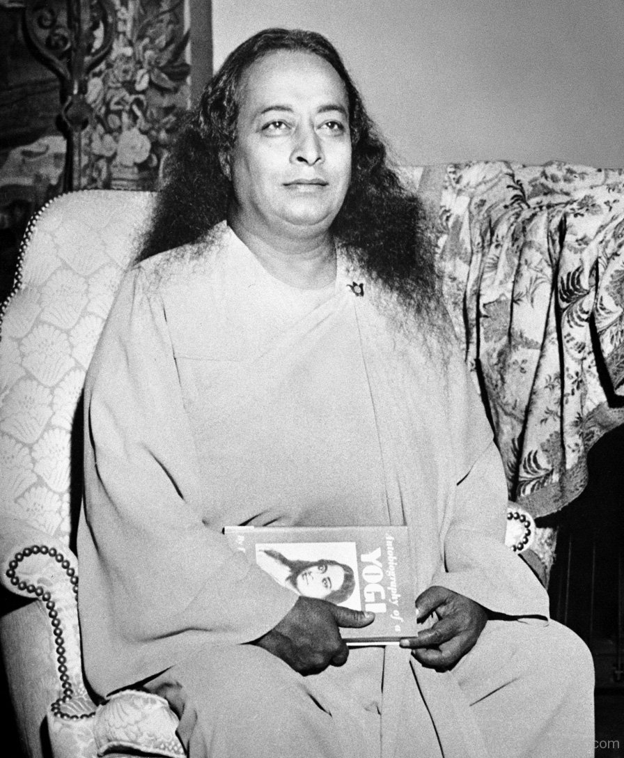 Paramahansa Yogananda with his book "Autobiography of a Yogi"